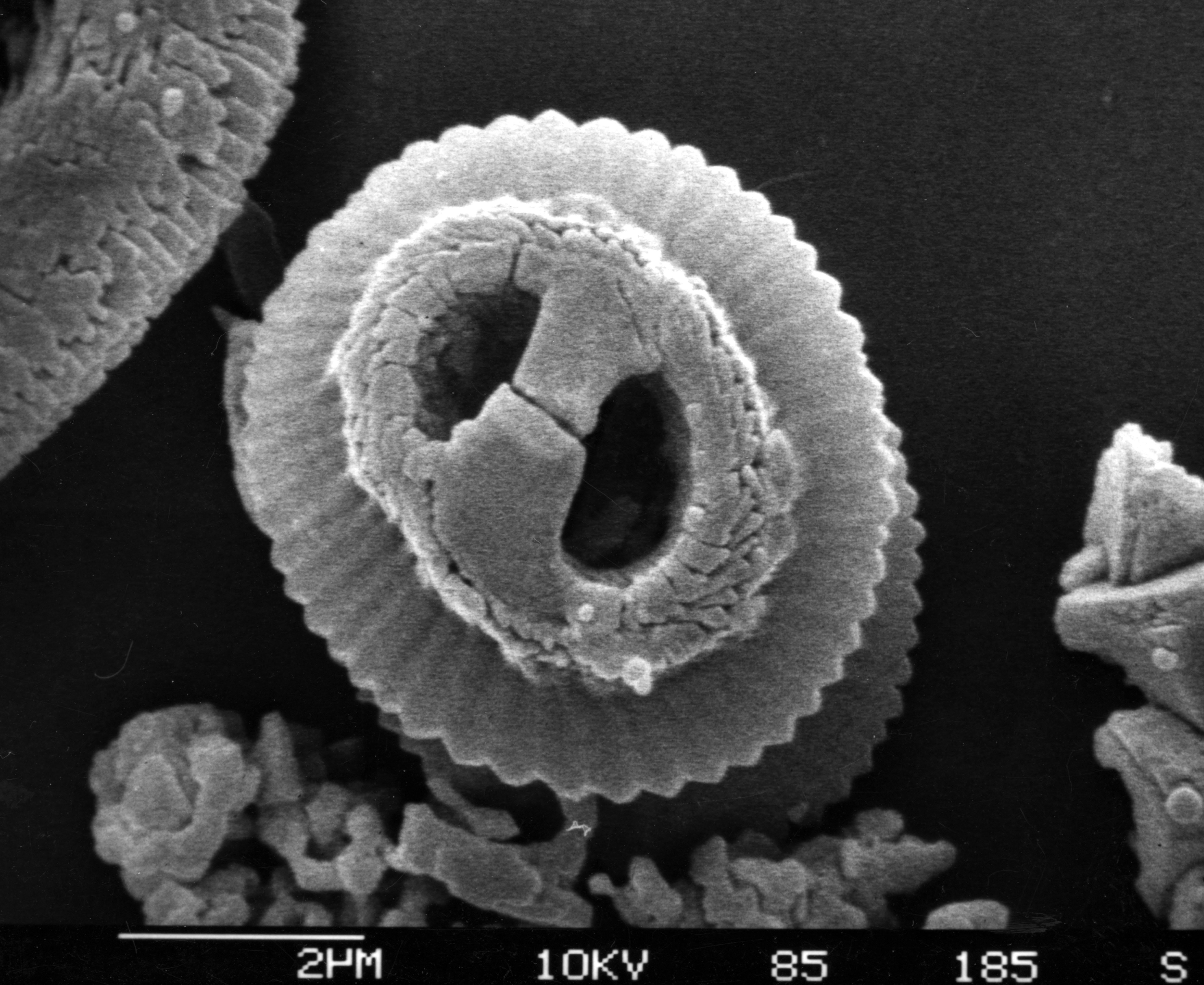 Microfossils from marine sediments - Coccolith Gephyrocapsa oceanica